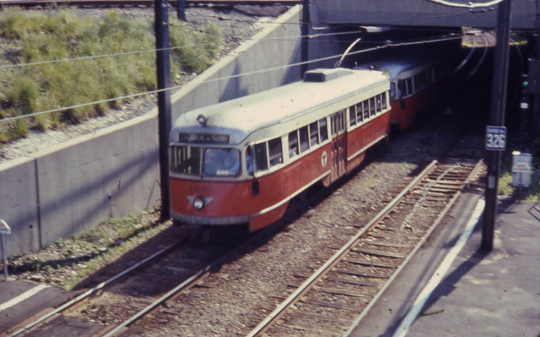 PCC car #3003 leads an inbound train at Reservoir station in 1967